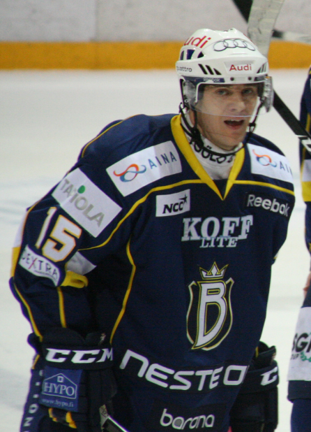 Ice Hockey Team Espoo Blues' Attacker #15 Patrik Lostedt